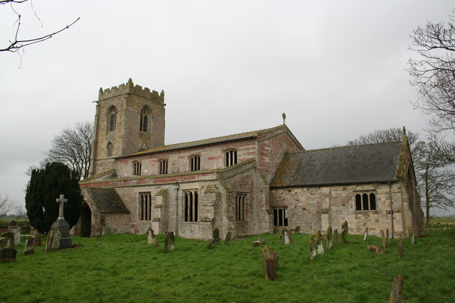 St.Botolph's church, Skidbrooke. Thanks to the "Friends of St. Botolph's church", this wonderful building is faring much better than the last time I was here. A marvellous example of all three periods of gothic architecture indicating the economic prosperity of this part of medieval Lincolnshire. Now redundant and stripped of its windows and interior furnishings it is a very atmospheric place.